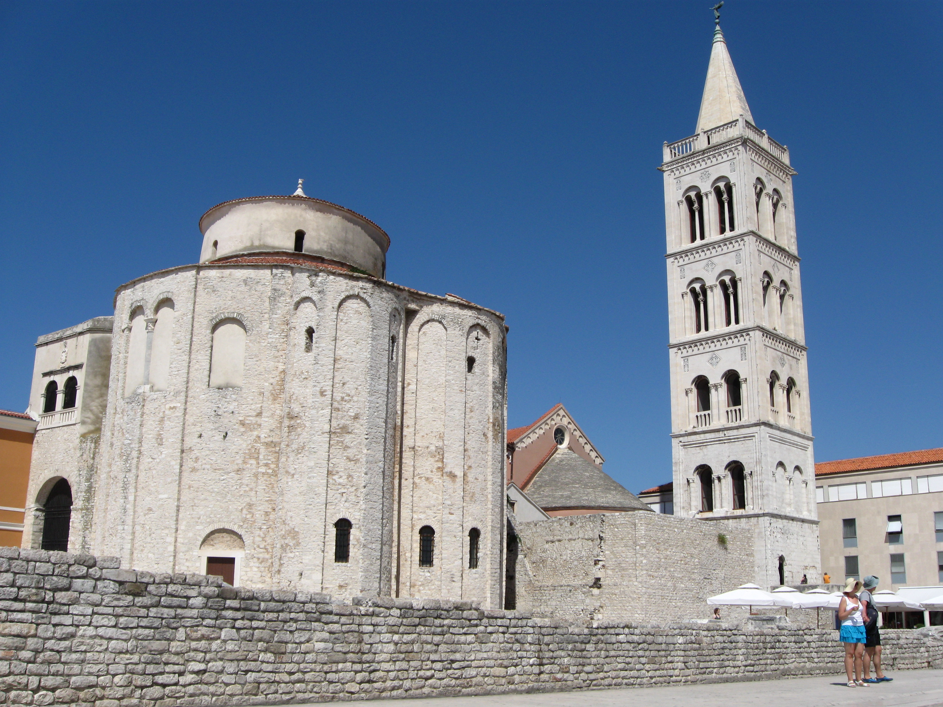 Church of St. Donat, Zadar, Croatia. 2011